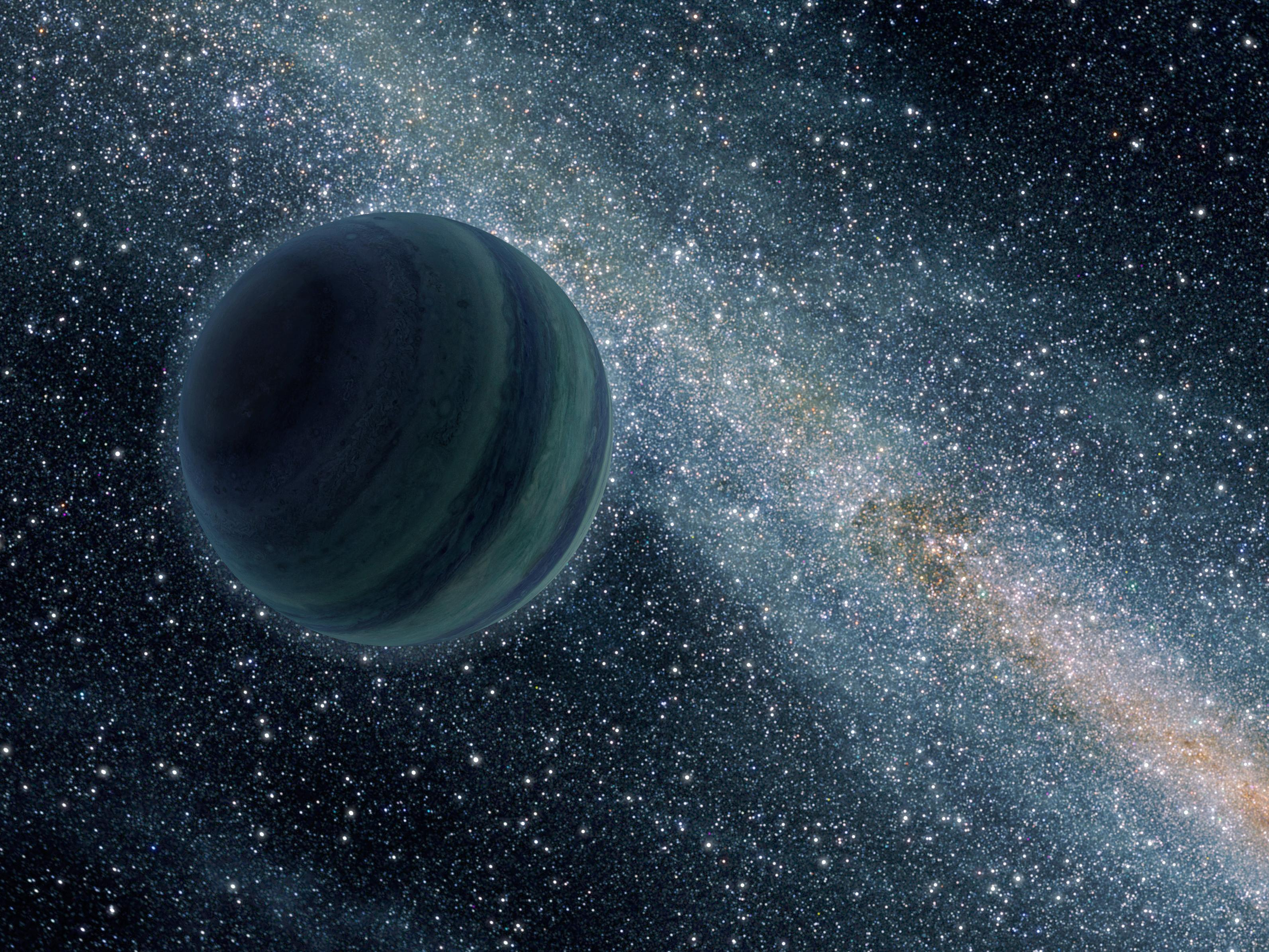 This artist's conception illustrates a Jupiter-like planet alone in the dark of space, floating freely without a parent star. Astronomers recently uncovered evidence for 10 such lone worlds, thought to have been "booted," or ejected, from developing solar systems. The planet survey, called the Microlensing Observations in Astrophysics (MOA), scanned the central bulge of our Milky Way galaxy from 2006 to 2007. It used a 5.9-foot (1.8-meter) telescope at Mount John University Observatory in New Zealand, and a technique called gravitational microlensing. In this method, a planet-sized body is identified indirectly as it just happens to pass in front of a more distant star, causing the star to brighten. The effect is like a cosmic funhouse mirror, or magnifying lens light from the background star is warped and amplified, becoming brighter. Based on these results, astronomers estimate that free-floating worlds are more common than stars in our Milky Way galaxy, and perhaps other galaxies too.